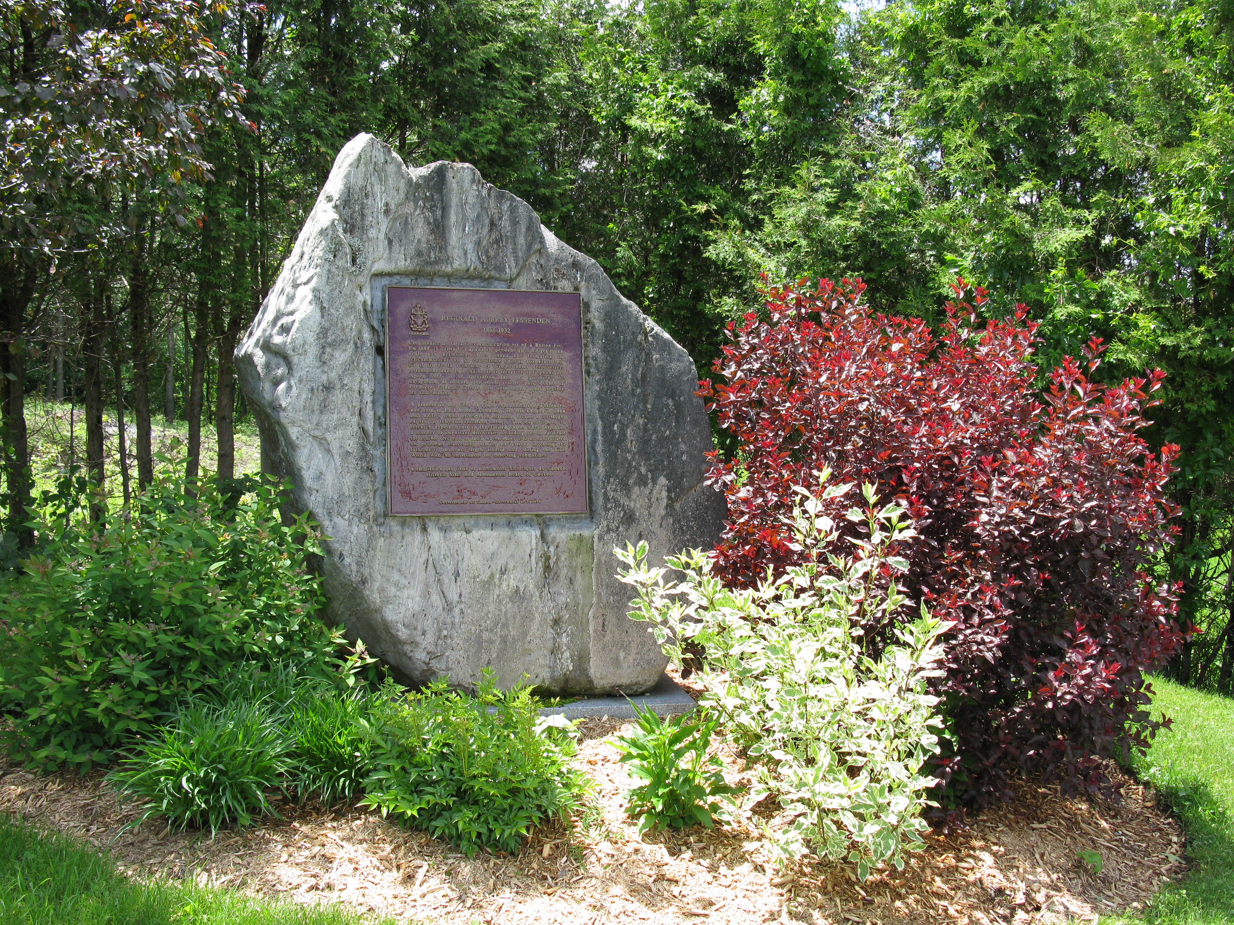 Commemorative plaque honoring Reginald Aubrey Fessenden in Austin, Quebec, Canada.